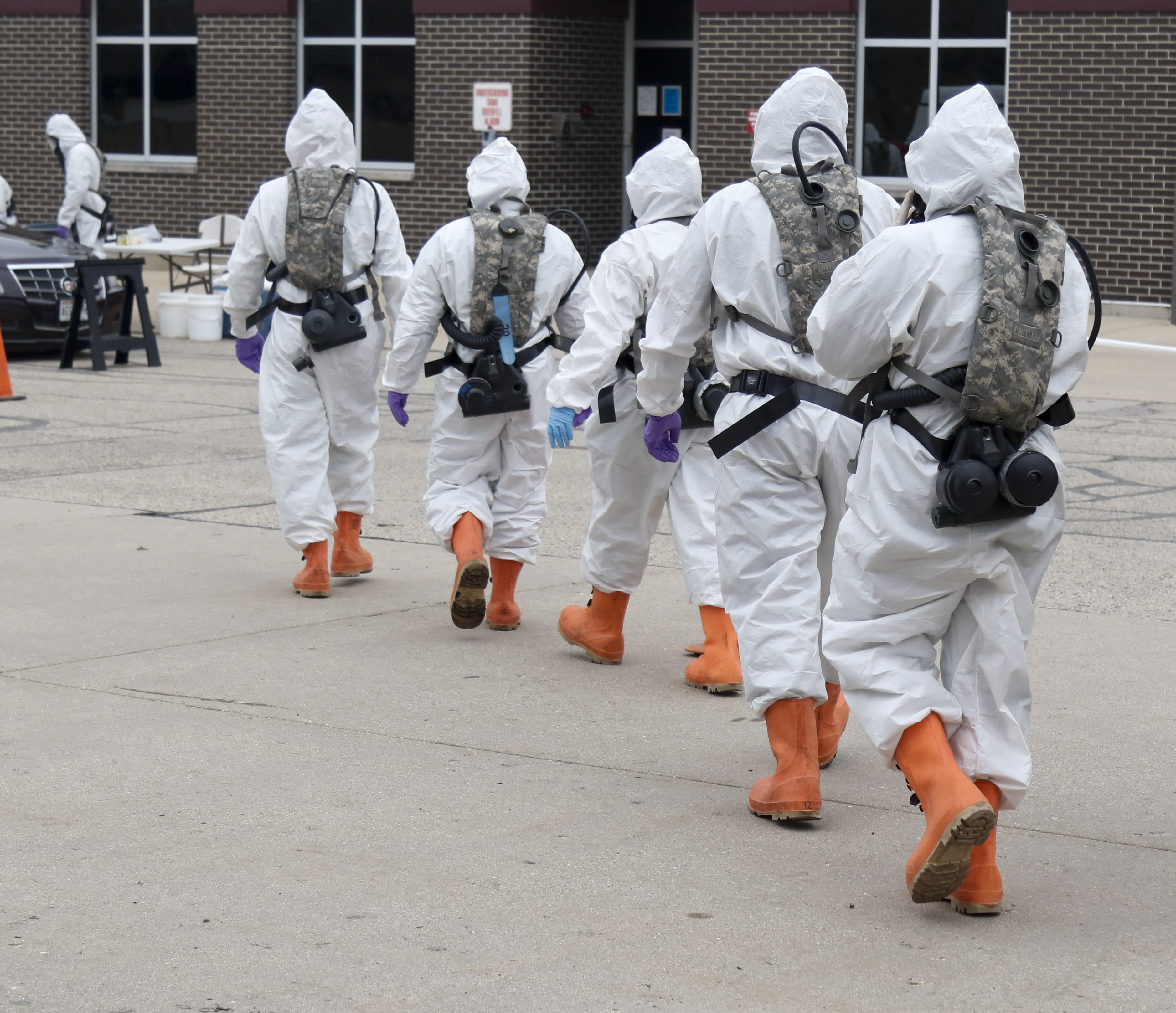 Wisconsin National Guard Soldiers practice specimen collection lanes to learn how to potentially respond to COVID-19. Over 300 Soldiers and Airmen were activated by the Governor of Wisconsin, Tony Evers, on March 19, 2020.(Wisconsin National Guard photo by Spc. Emma Anderson)